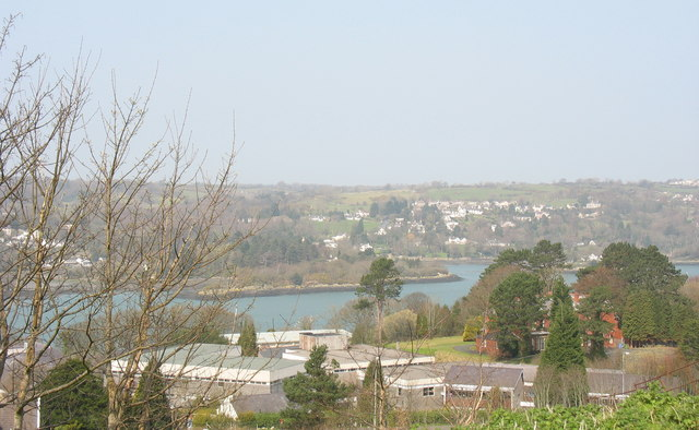 The Normal Site of the University of Wales, Bangor This site was formerly occupied by Coleg Normal, a teachers' training college. This was absorbed by the university in the 1996s. The actor Windsor Davies was a student at the Normal. The site contains the School of Education and the Sports, Health and Exercise School as well as a number of halls of residence.